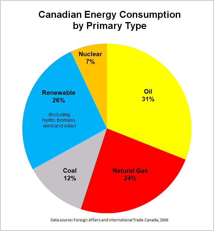 Pie chart of Canadian energy consumption by primary type